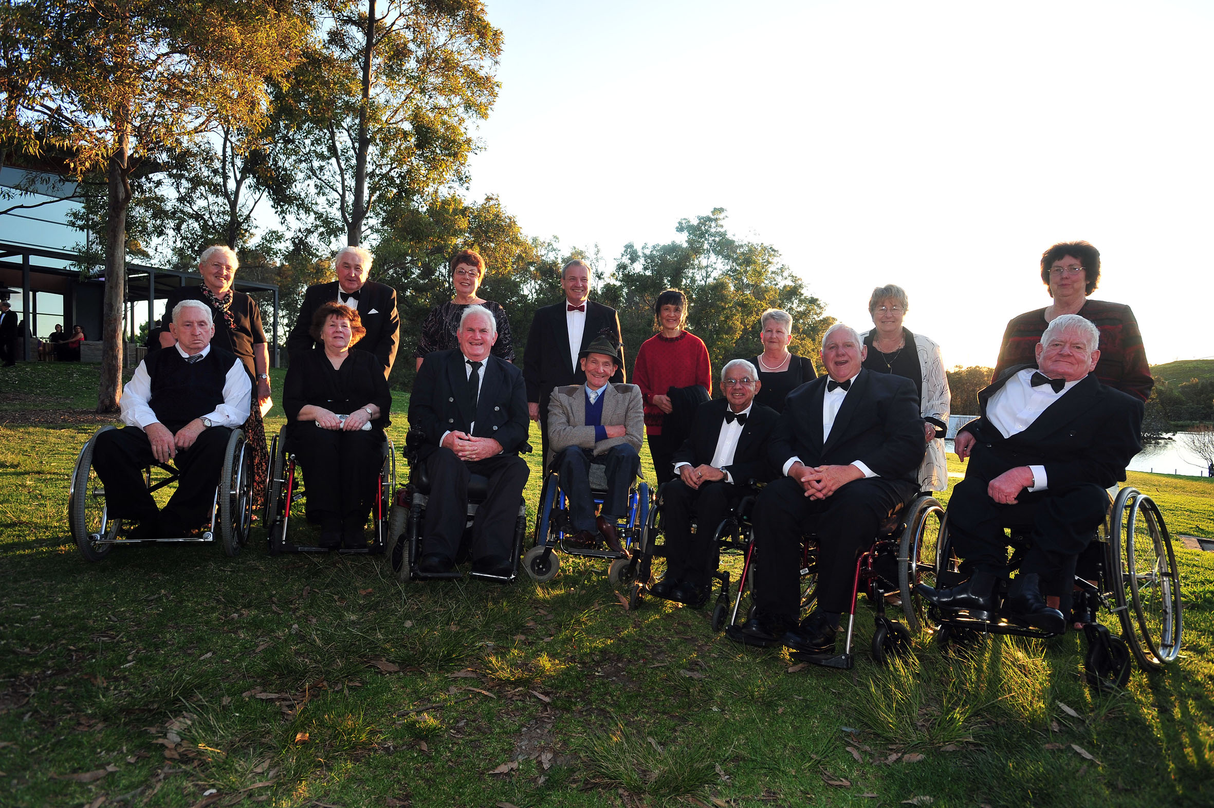 Seven of the eight surviving members of the 1960 Australian Paralympic Team pose with their partners and the President of the Australian Paralympic Committee, Greg Hartung at the 50 year reunion of the Team, in Sydney, 2010